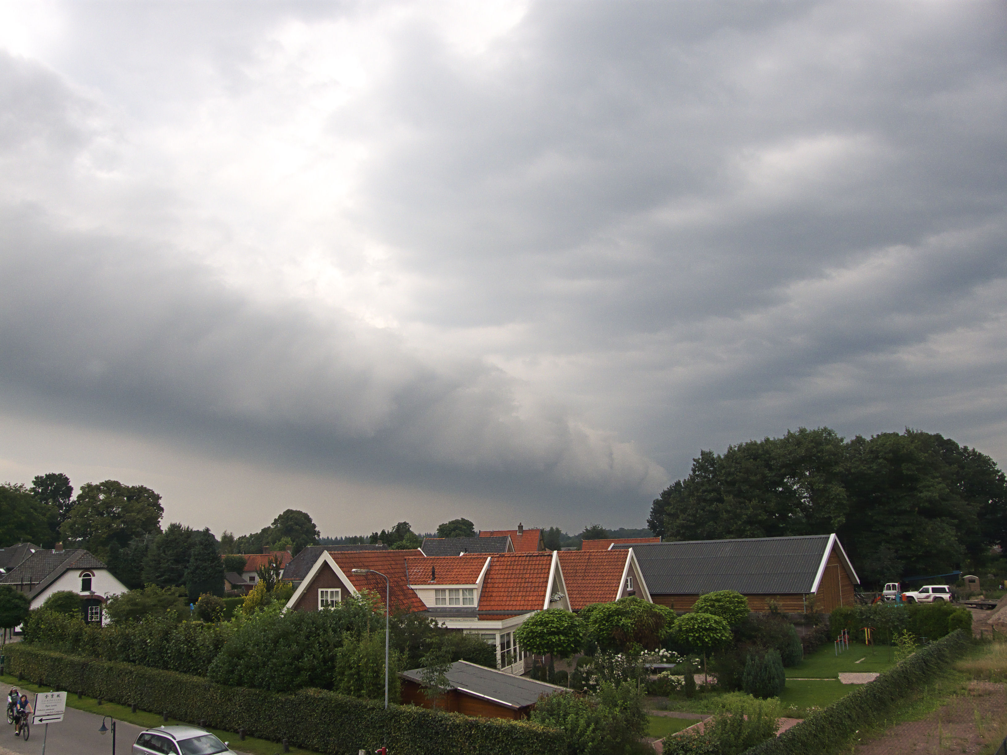 Roll cloud